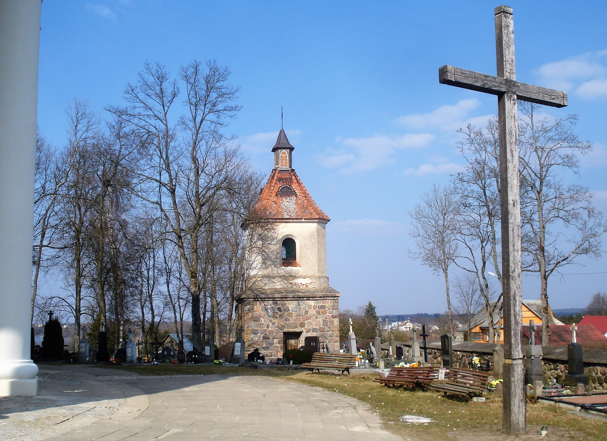 Bell tower of the Holy Trinity Church in Sudervė 1929